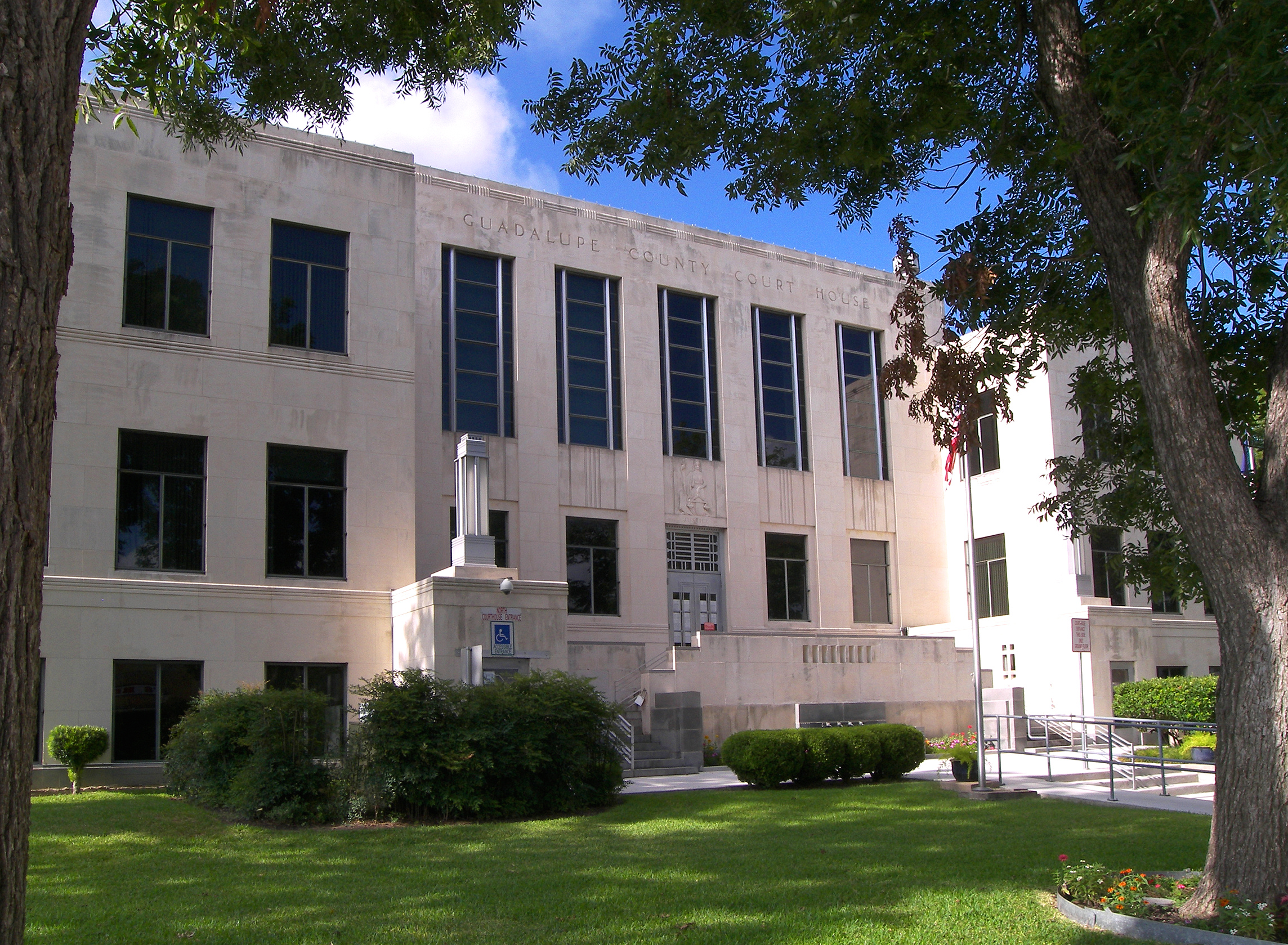 The Guadalupe County, Texas courthouse located in Seguin, Texas, United States. The courthouse was listed on the National Register of Historic Places on December 15, 1983 as a contributing structure of the Seguin Commercial Historic District.